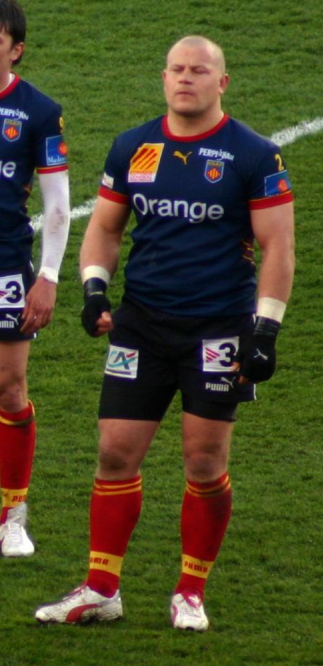 USAP (USA Perpignan) rugby team. Heineken Cup. From Flickr